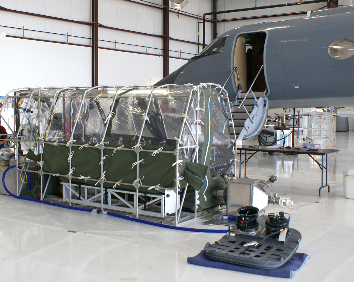 An undated photograph of an Aeromedical Biological Containment System (ABCS). Photo credit: CDC.